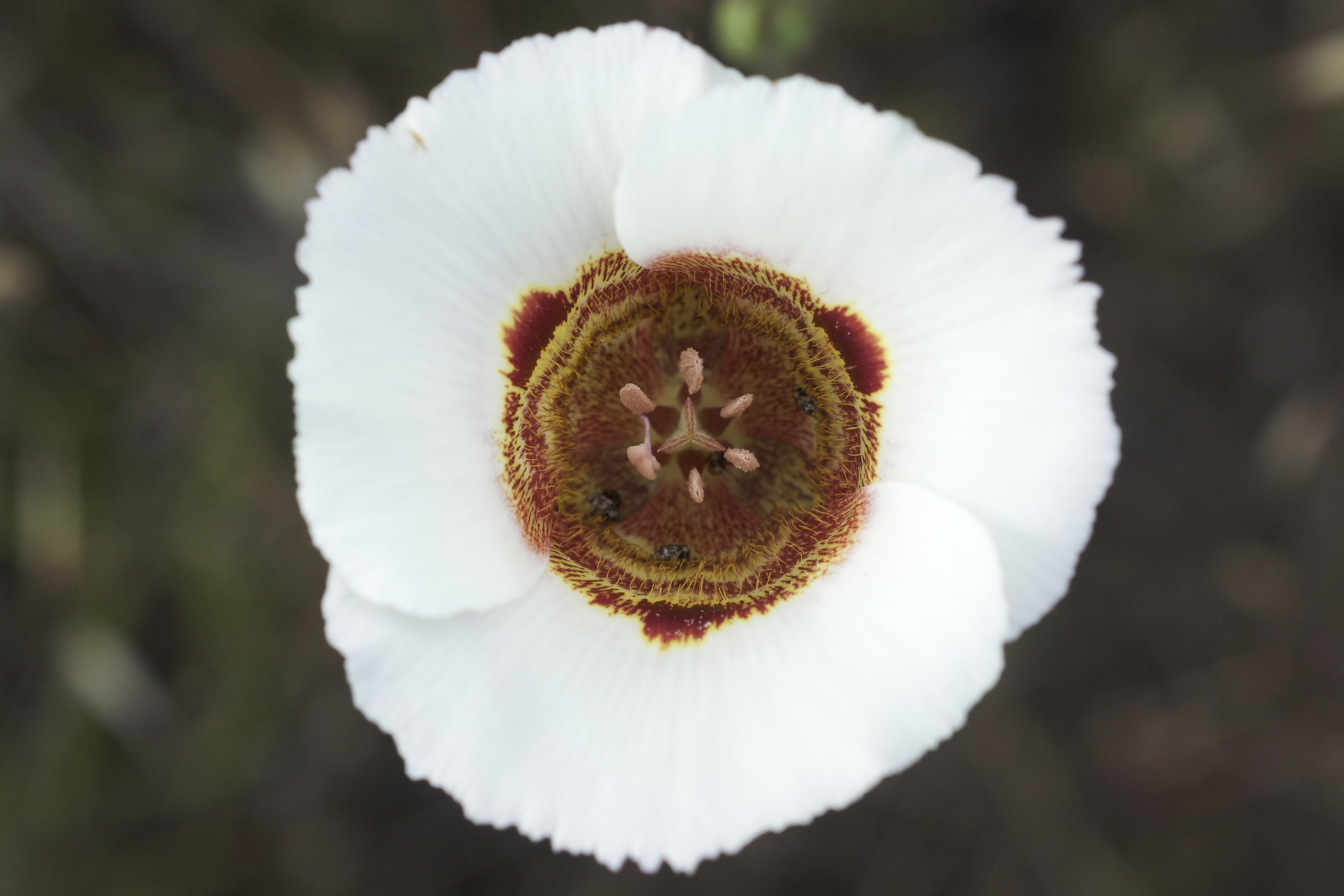 Calochortus vestae — Coast Range Mariposa Lily. A species endemic to California, photographed in southern Mendocino County, California